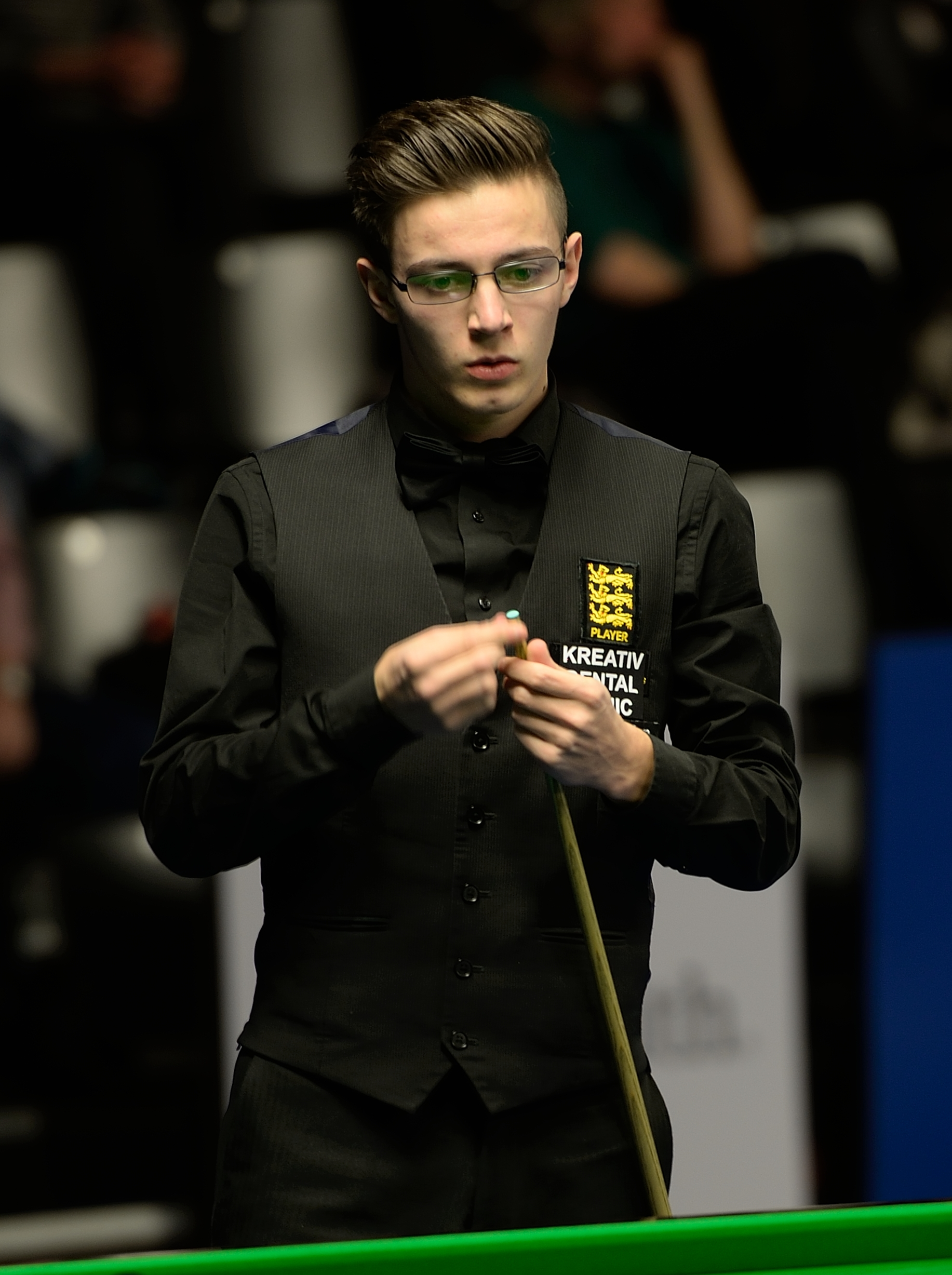 Picture taken in Berlin during the Snooker German Masters in 2015. Ashley Carty.